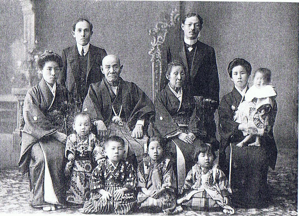 MITANI Tanekiti and Father 1910